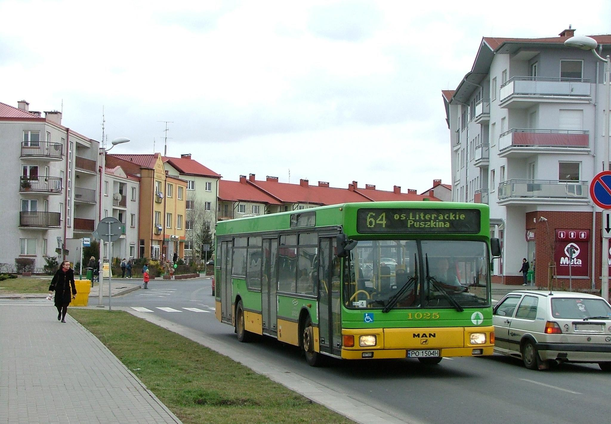 MAN NL202 (#1025) on Literackie District, Poznań, Poland. Built 1996, MPK Poznań operator.